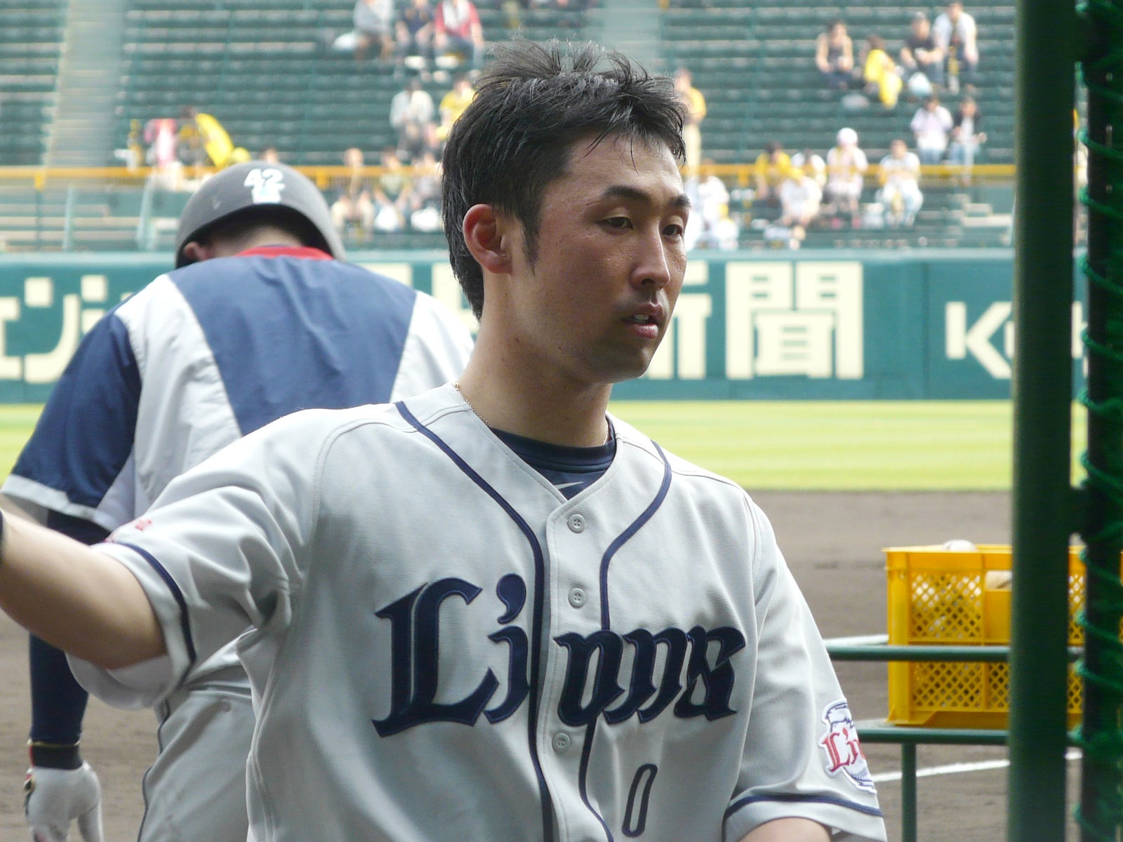 SL-Yutaro-Osaki20120528